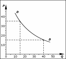 Demand curve